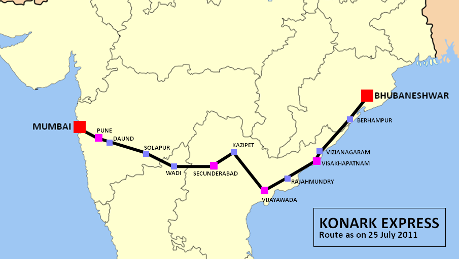 A Map showing the route of Konark Express.